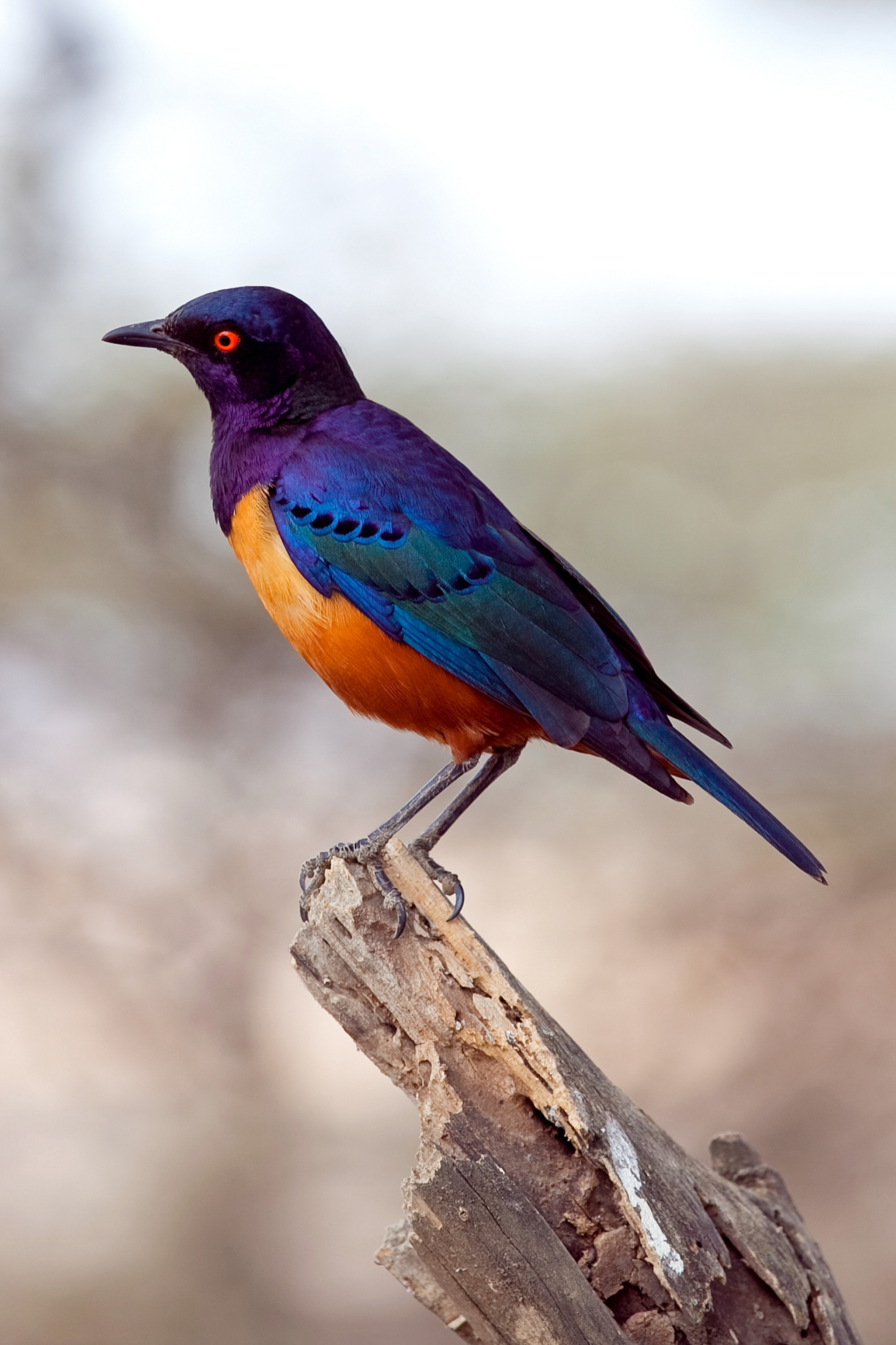 Hildebrandt's Starling in Tanzania.